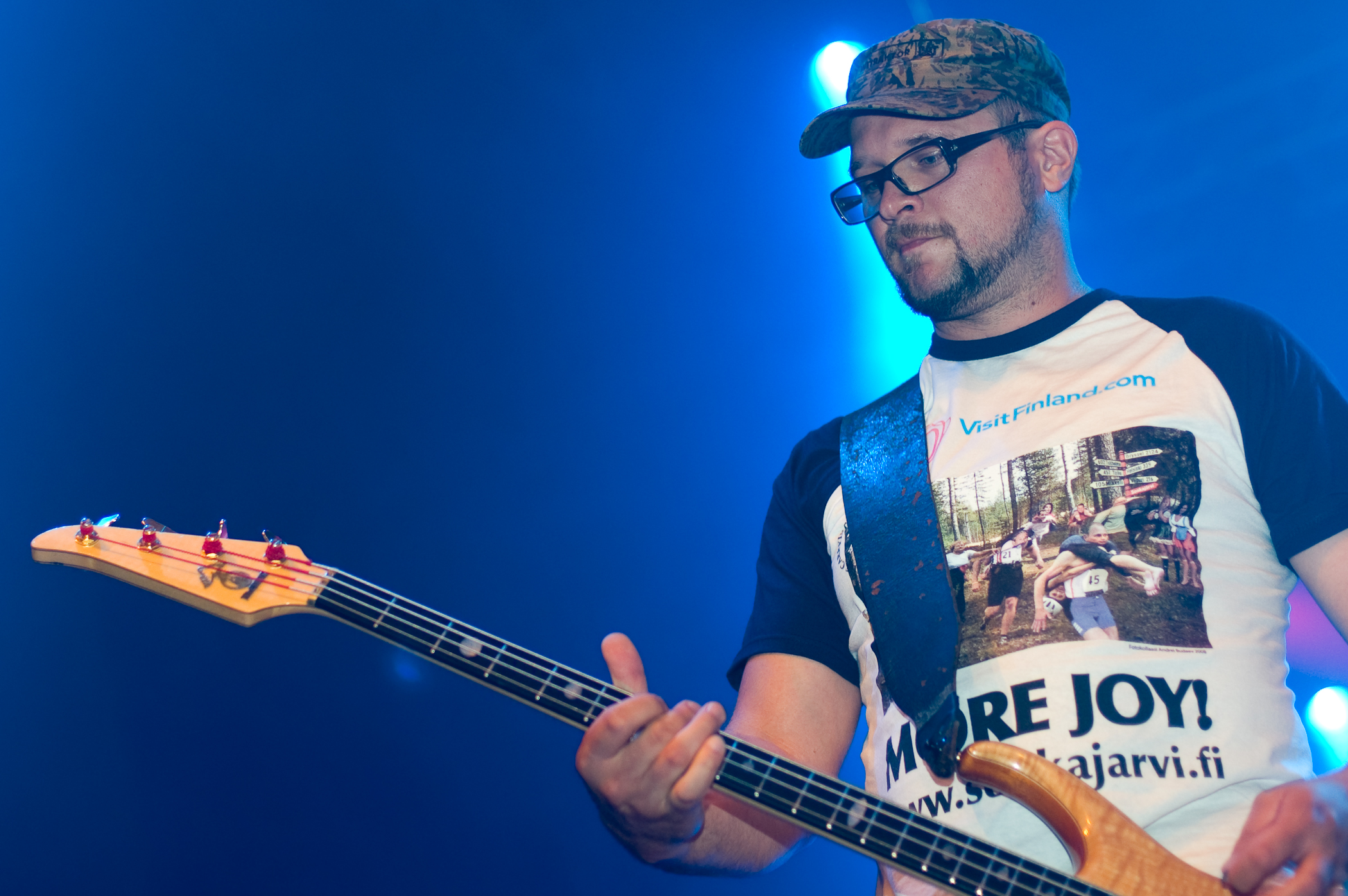 Bassist Janne Hongisto of the band Kotiteollisuus performs at the Ilosaarirock festival on the 11th of July 2008 in Joensuu, Finland.